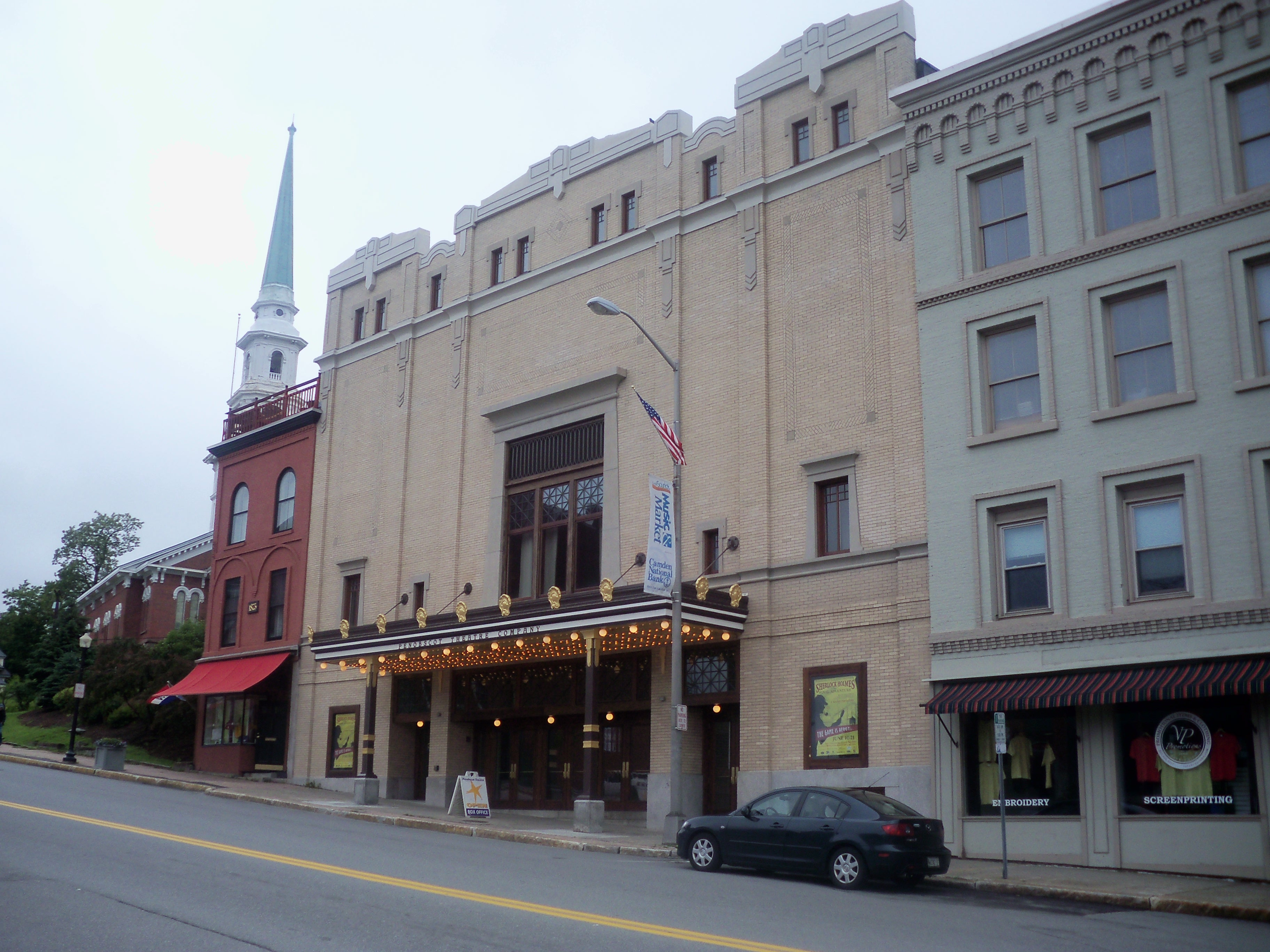 Bangor Opera House in Bangor, home of the Penobscot Theatre Company